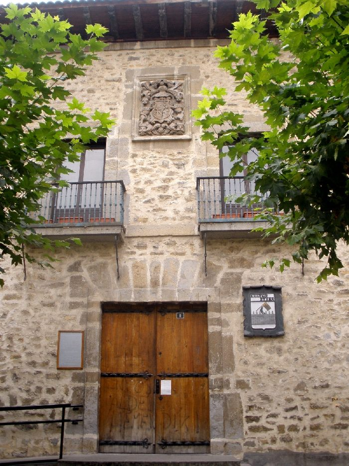 Casa en Amurrio (Álava, País Vasco, España).